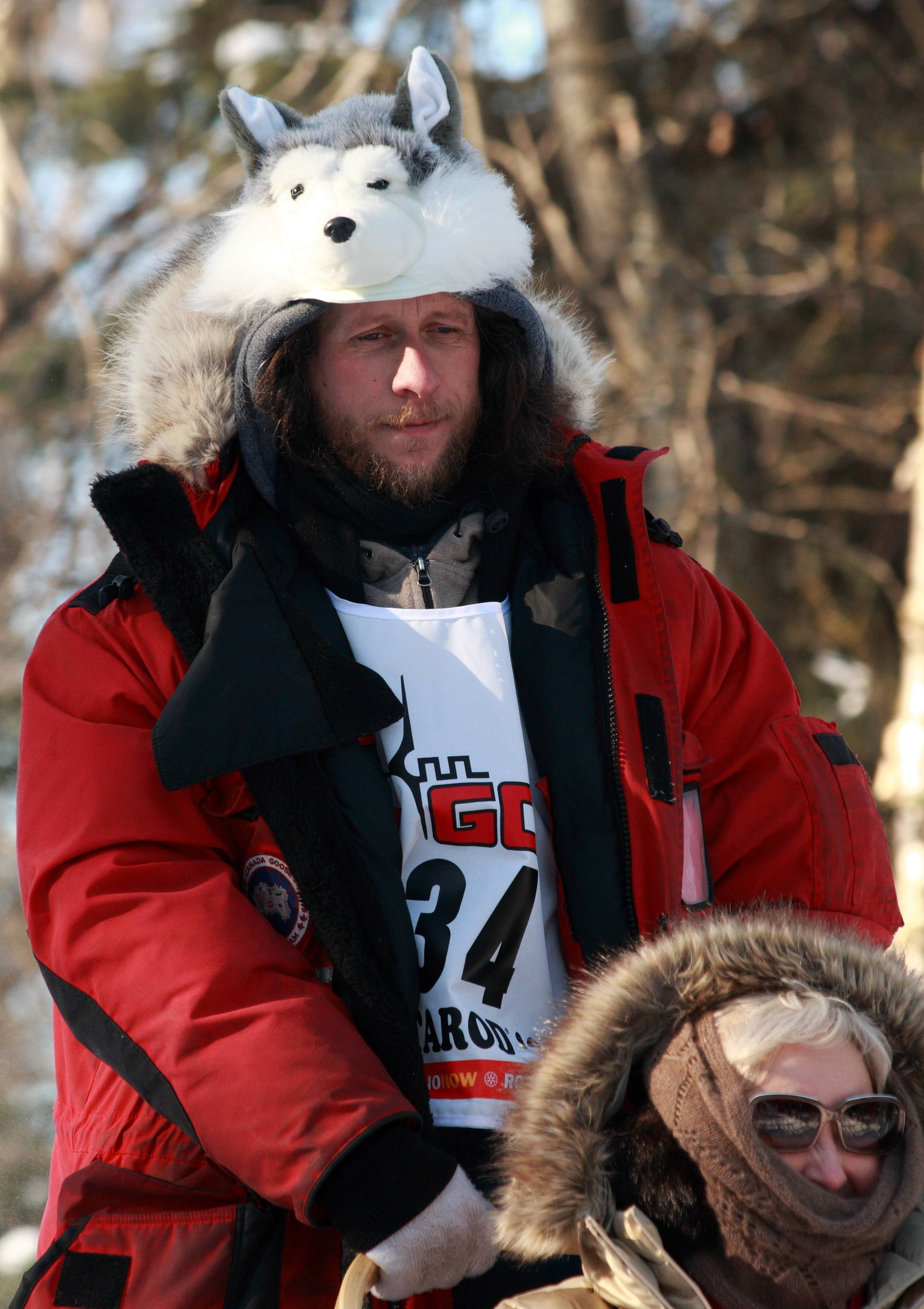 I took these photos on 8 March 2009 at the ceremonial start of the Iditarod sled dog race in Anchorage, Alaska. This was the 37th running of The Last Great Race. I get a thrill out of each race - the dogs were born to run and it is another thing that makes me proud to be an Alaskan! Note: for the ceremonial run the mushers have paying passengers - I think they are called Iditariders - these people bid on a chance to go on the ceremonial run. The actual Iditarod starts from Willow, Alaska, on the day after the ceremonial start, minus the Iditariders.